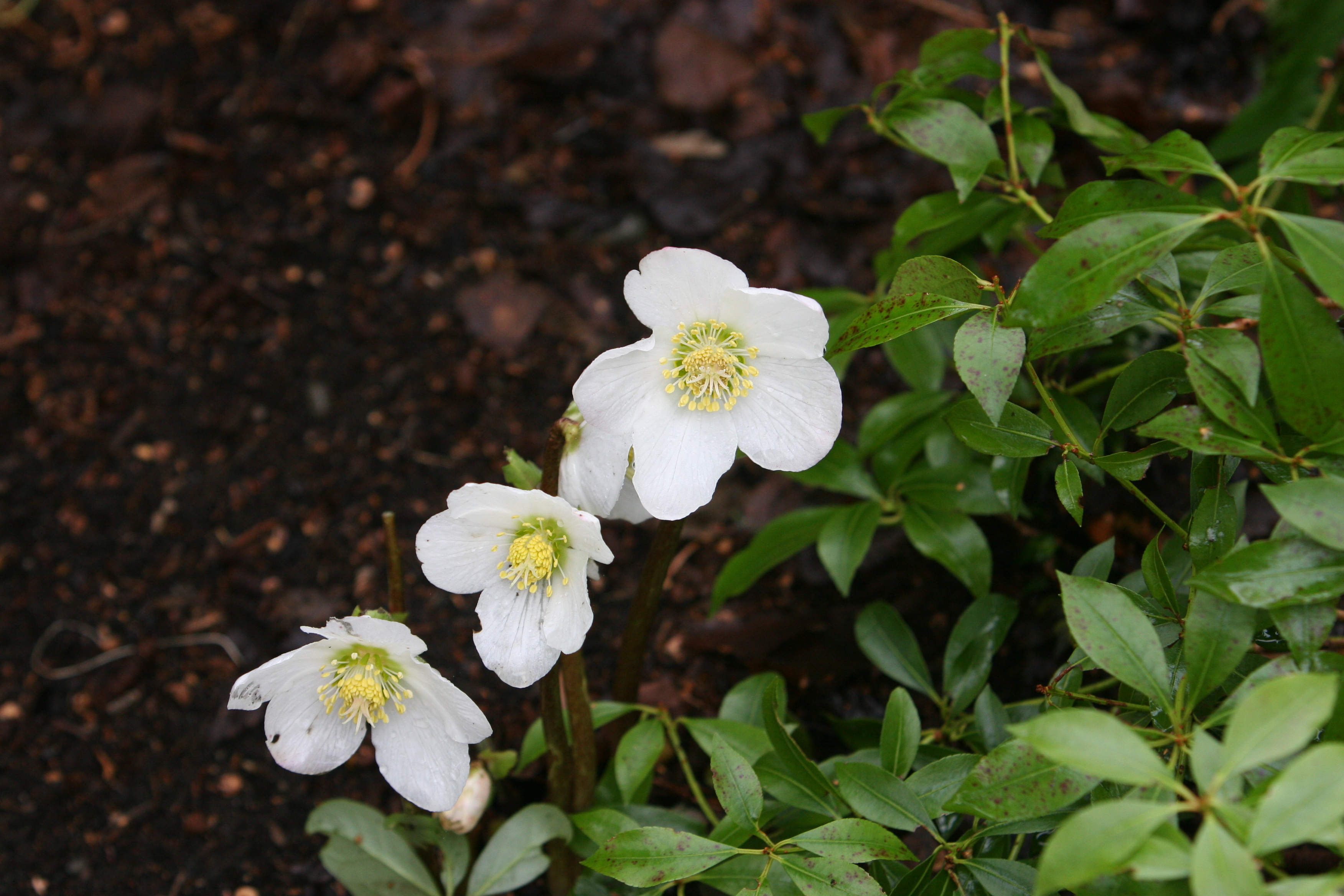 Very nice to see this blooming on 4 February in Seattle i020407 014